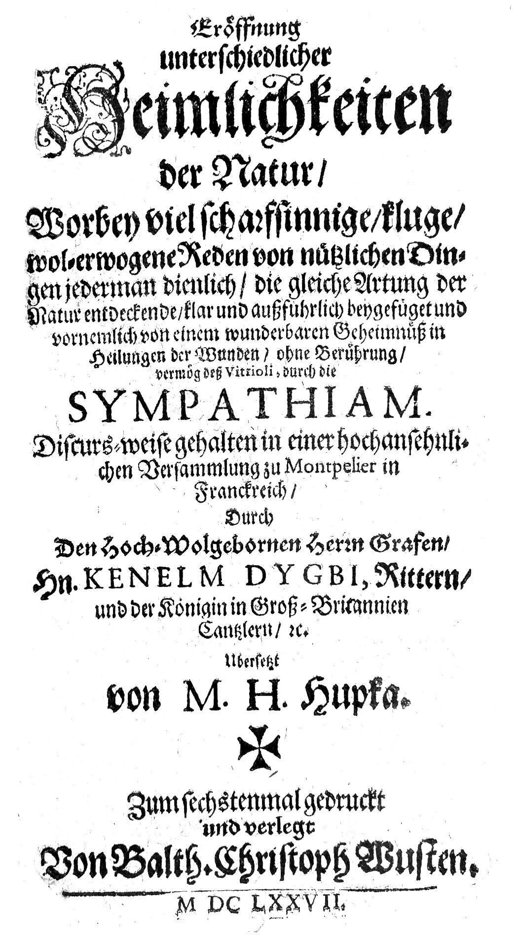 Frontispiece illustration of 'Sympathia'-(Powder of Sympathy). Nine illustrations in a grid. Rare Books Keywords: 'powder of sympathy'; Kenelm Digby; R.V. Verst; Anthony Van Dyke